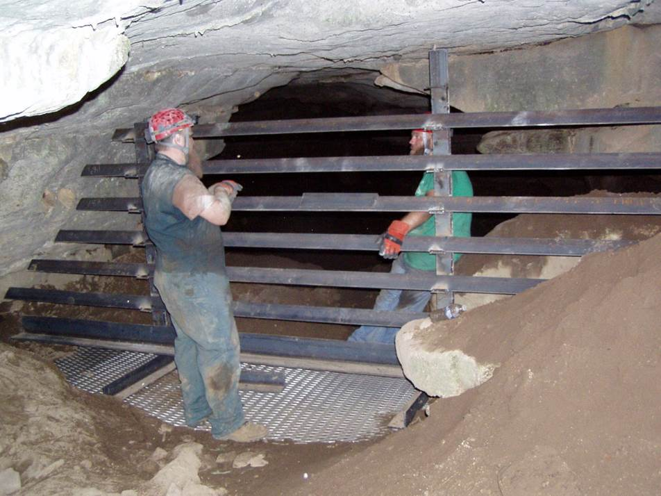 A cave gate allows cave-animals to pass in and out, while controlling human access. This gives the landowner the ability to better manage the cave and conserve sensitive animals found within.